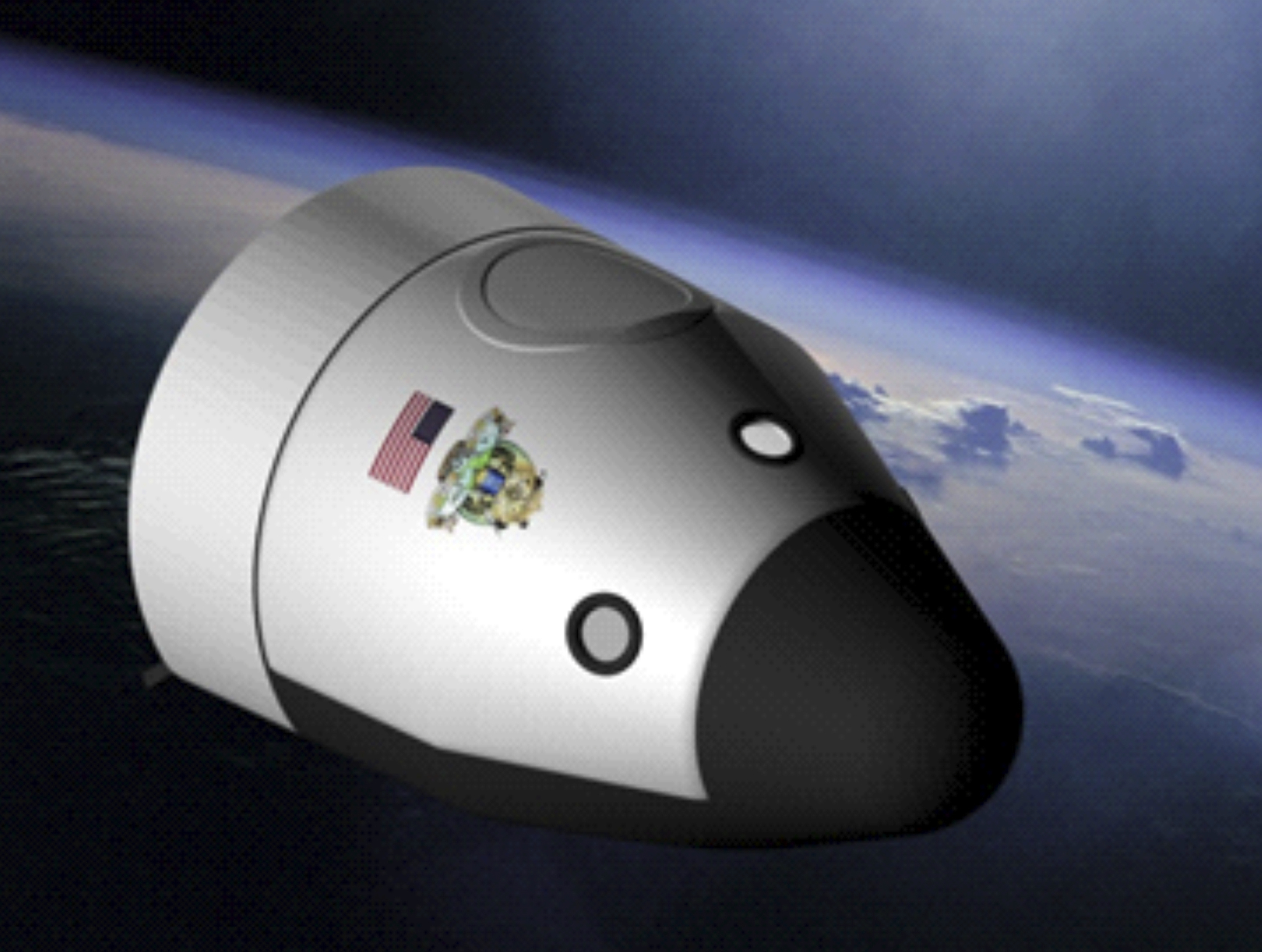 CAPE CANAVERAL, Fla. – This is an artist's conception of the New Shepard spacecraft under development by Blue Origin of Kent, Wash., for NASA's Commercial Crew Program (CCP). In 2011, NASA selected Blue Origin during Commercial Crew Development Round 2 (CCDev2) activities to mature the design and development of a crew transportation system with the overall goal of accelerating a United States-led capability to the International Space Station. The goal of CCP is to drive down the cost of space travel as well as open up space to more people than ever before by balancing industry’s own innovative capabilities with NASA's 50 years of human spaceflight experience. Six other aerospace companies also are maturing launch vehicle and spacecraft designs under CCDev2, including Alliant Techsystems Inc. (ATK), The Boeing Co., Excalibur Almaz Inc., Sierra Nevada Corp., Space Exploration Technologies (SpaceX), and United Launch Alliance (ULA). For more information, visit